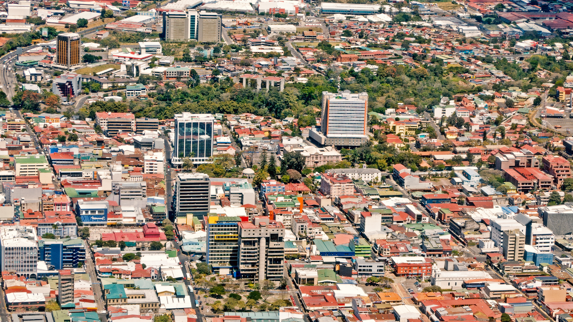 Partial view of Downtown San Jose, Costa Rica.